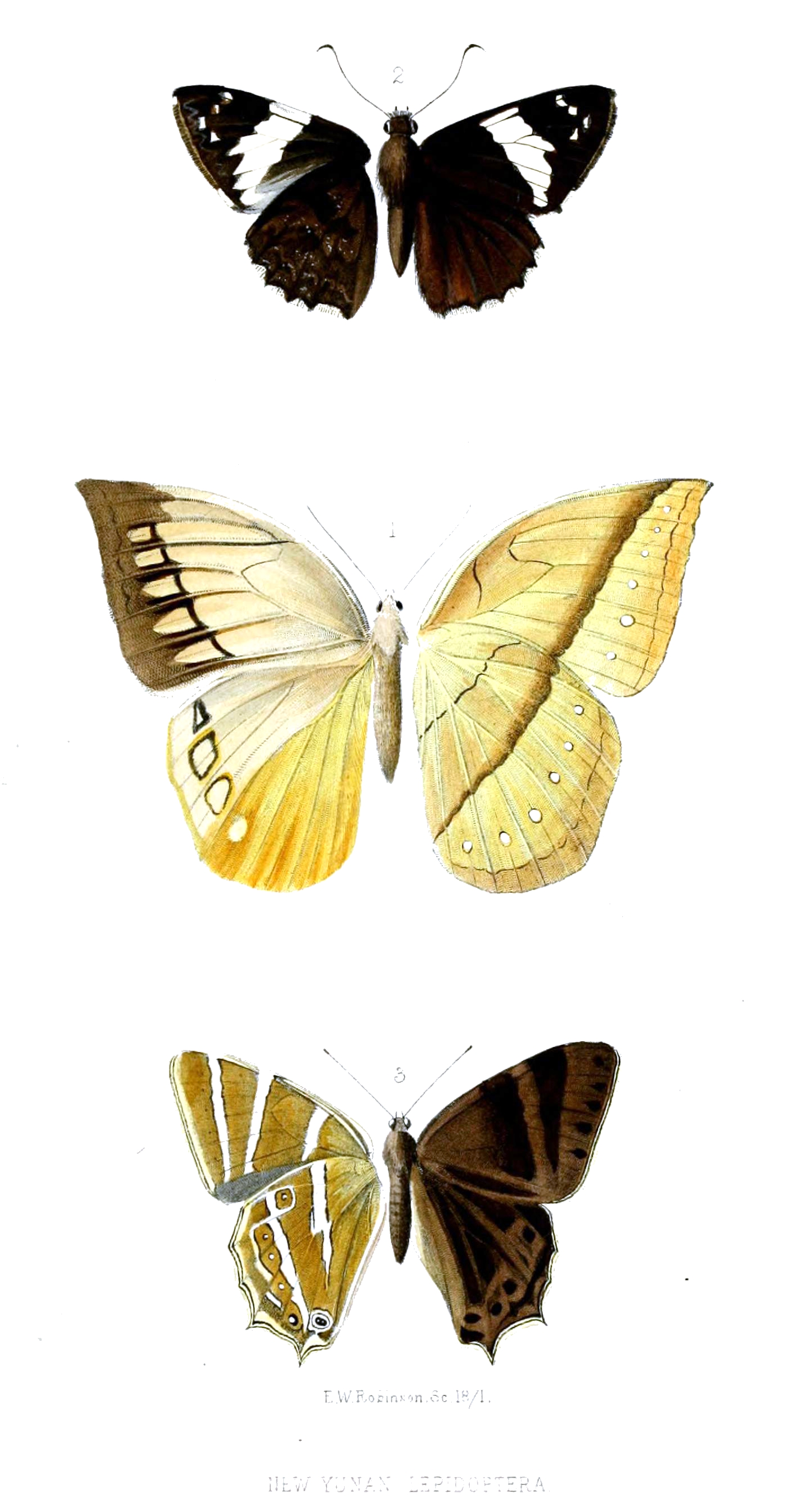 "New Yunnan Lepidoptera"